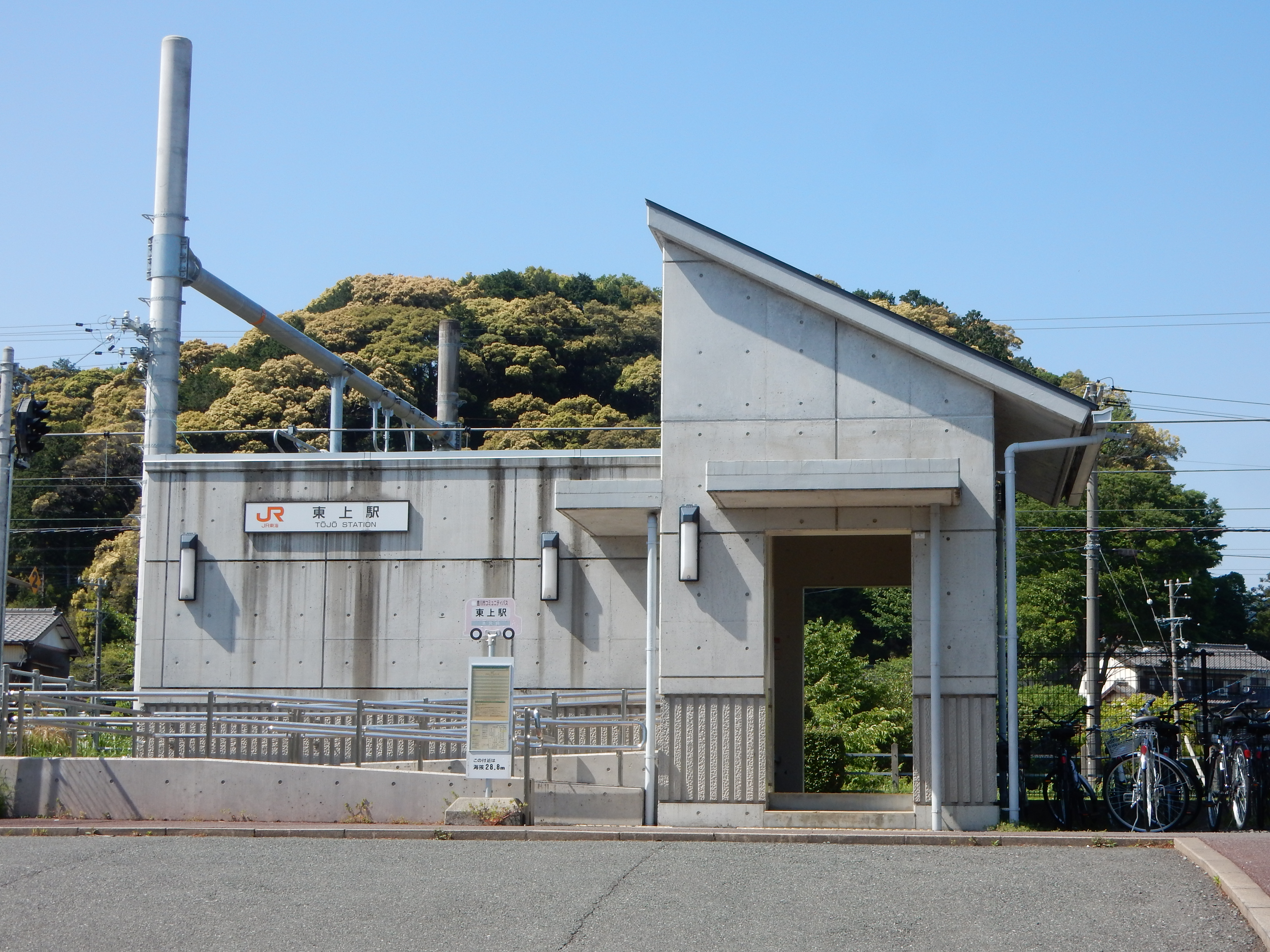 Tōjō_Station, located at 46 Tokyoji, Tojo, Toyokawa, Aichi, Japan